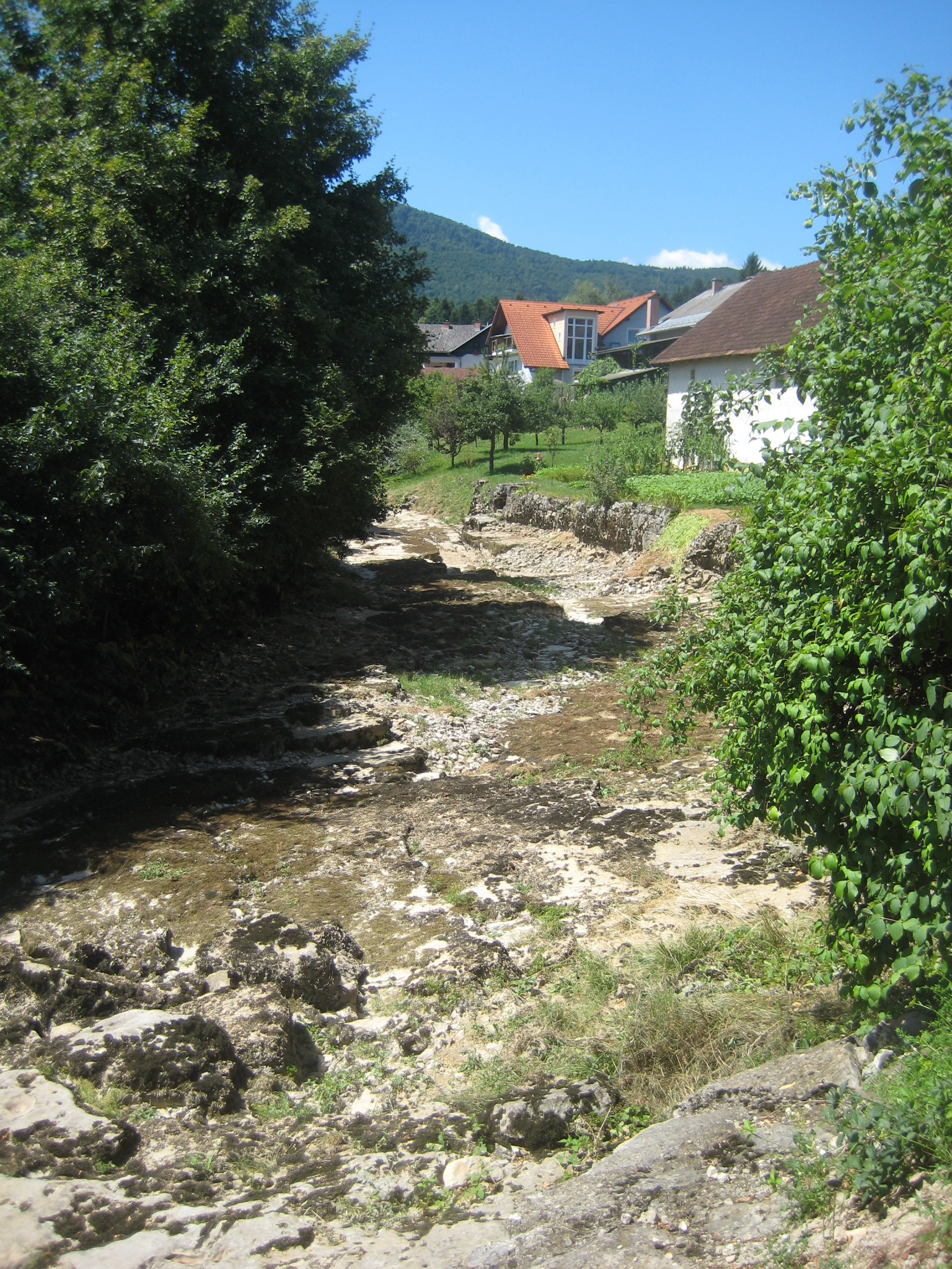 Sušica, the creek in Dolenjske Toplice, southeastern Slovenia.